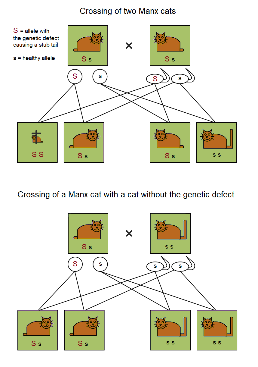 Inheritance patterns of the dominant genetic defect